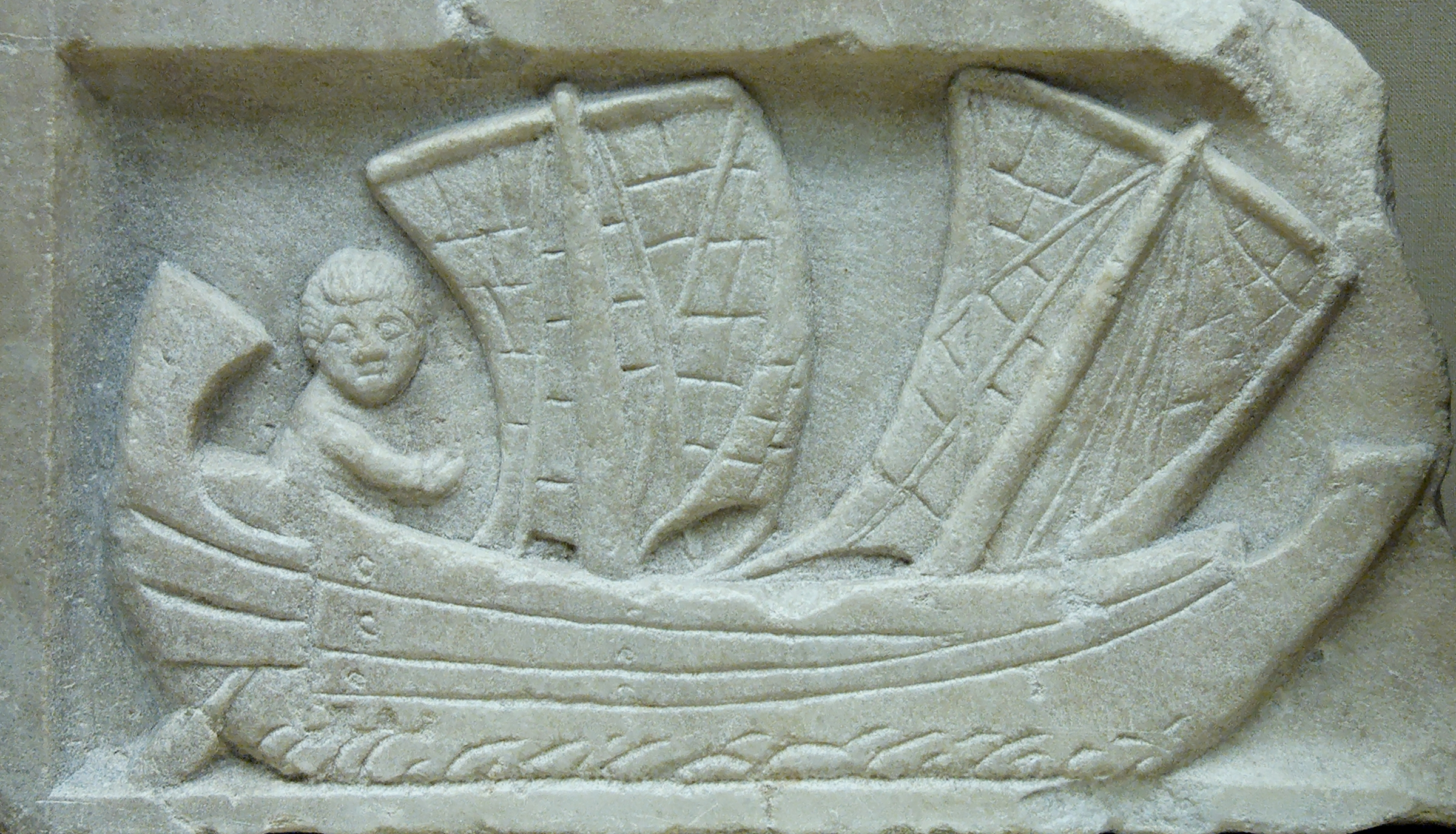 Man sailing a corbita, a small coastal vessel with two masts. Probably made in Africa Proconsularis (Tunisia). Found at Carthage.